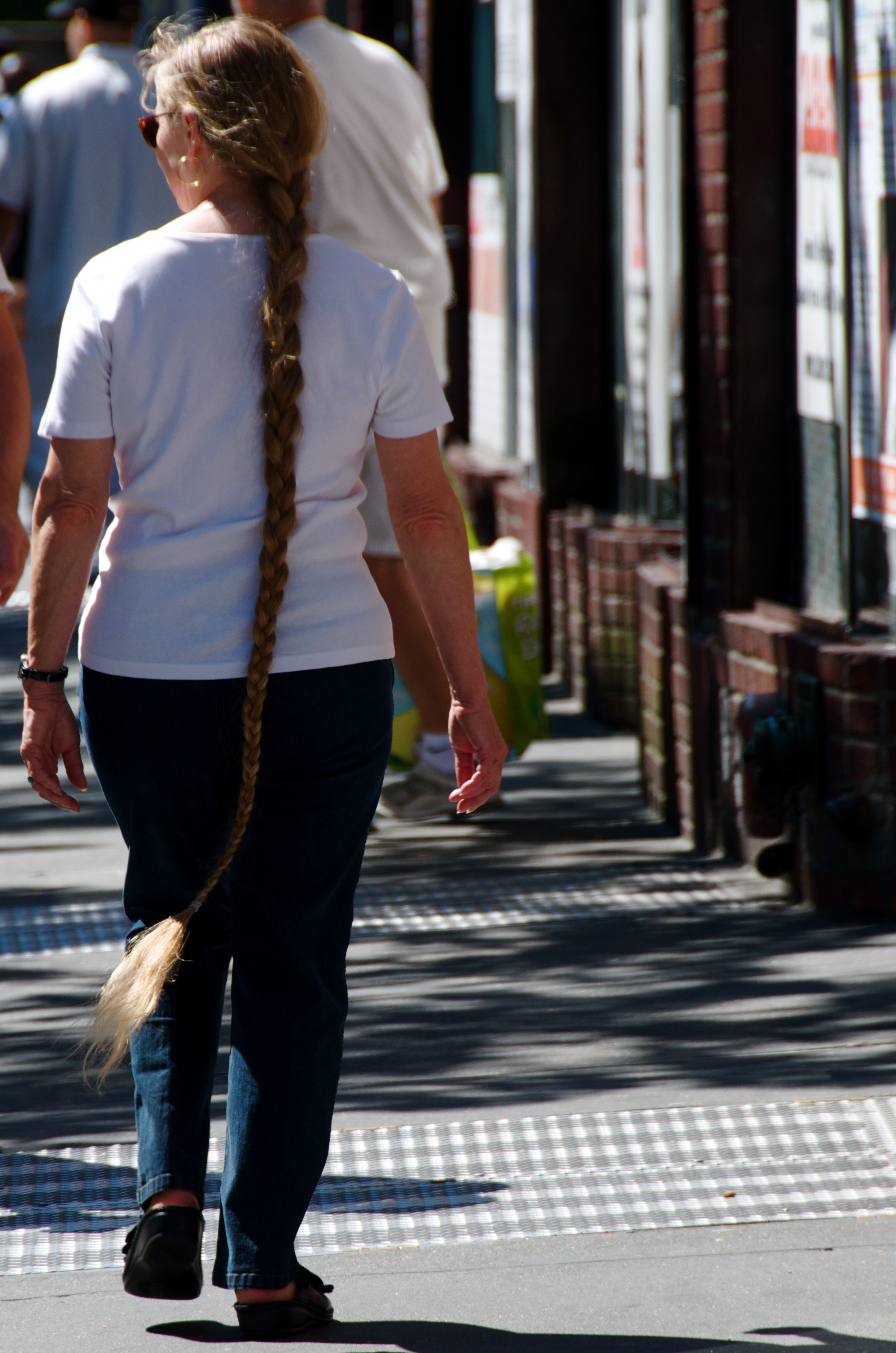 Very long braid.